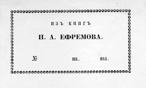 Exlibris by Pyotr Yefremov